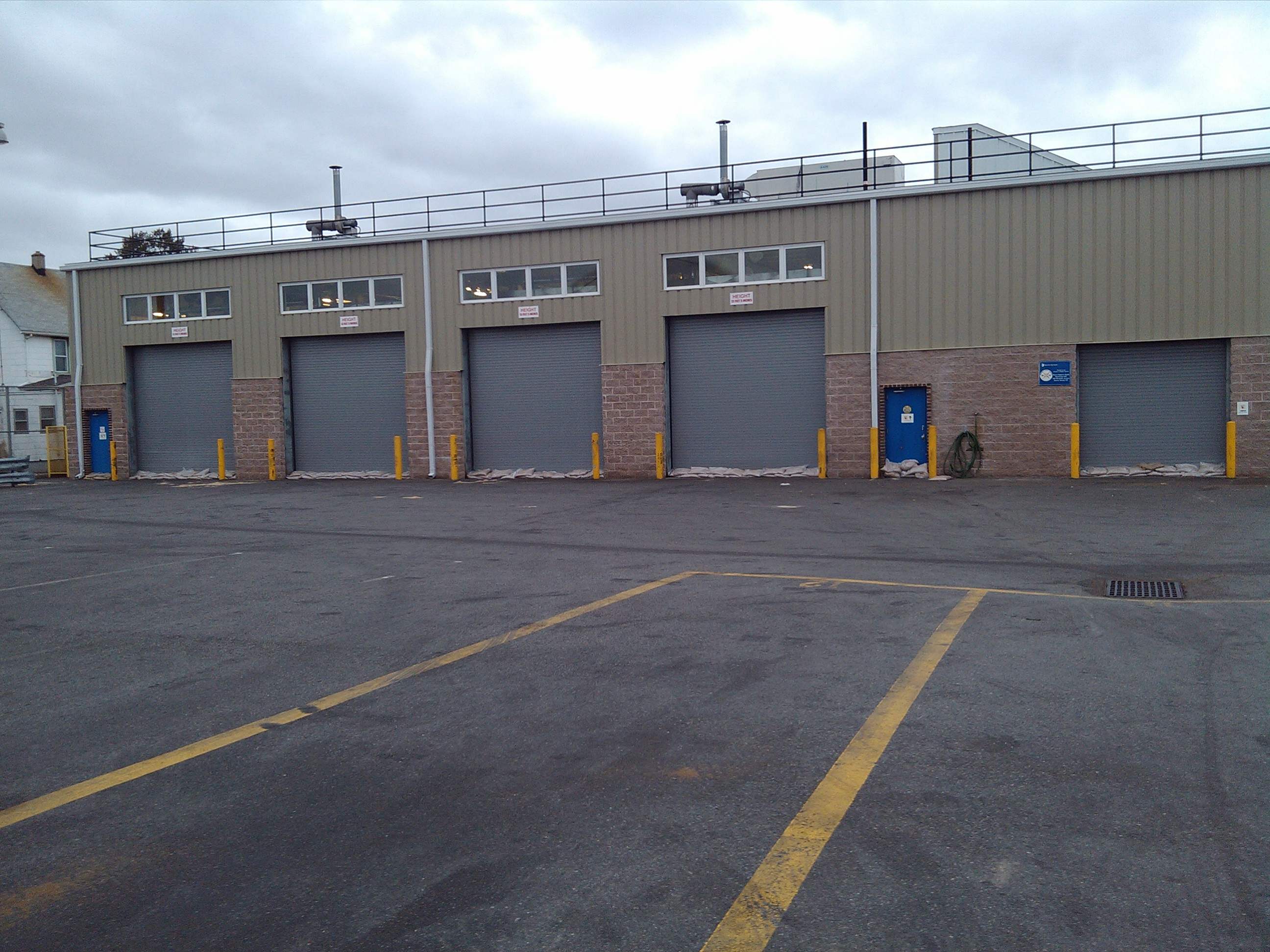 Sandbags placed at the foot of doors at the Meredeth Avenue Bus Depot in Staten Island will help secure the doors and reduce volume of floodwaters from entering the depot. Photo: MTA New York City Transit